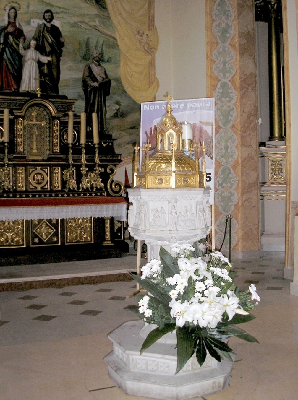 taken by Valdoria. Wadowice, Poland.August 2005